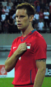 Singaporean footballer John Wilkinson during a Singapore vs. Lebanon international football match.